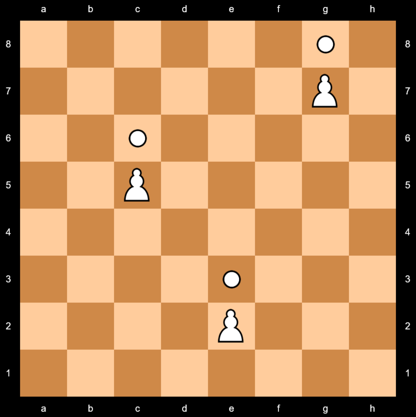 Shogi Pawns capture the same as they move. A Shogi Pawn must promote if it arrives at the furthest rank. It's for sure of great interest to play a Chess game with Shogi Pawns ! Let's call this game Tokin Chess: Tokin (= the Shogi Pawns).